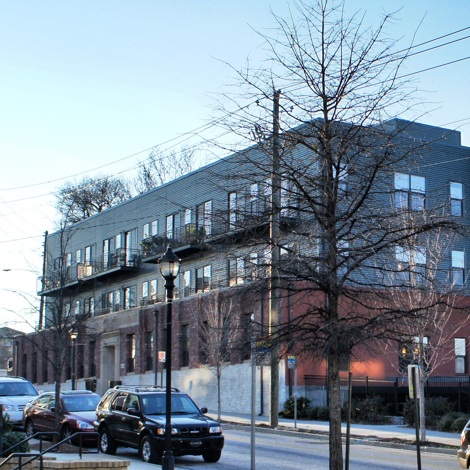 North Highland Avenue in Inman Park Village